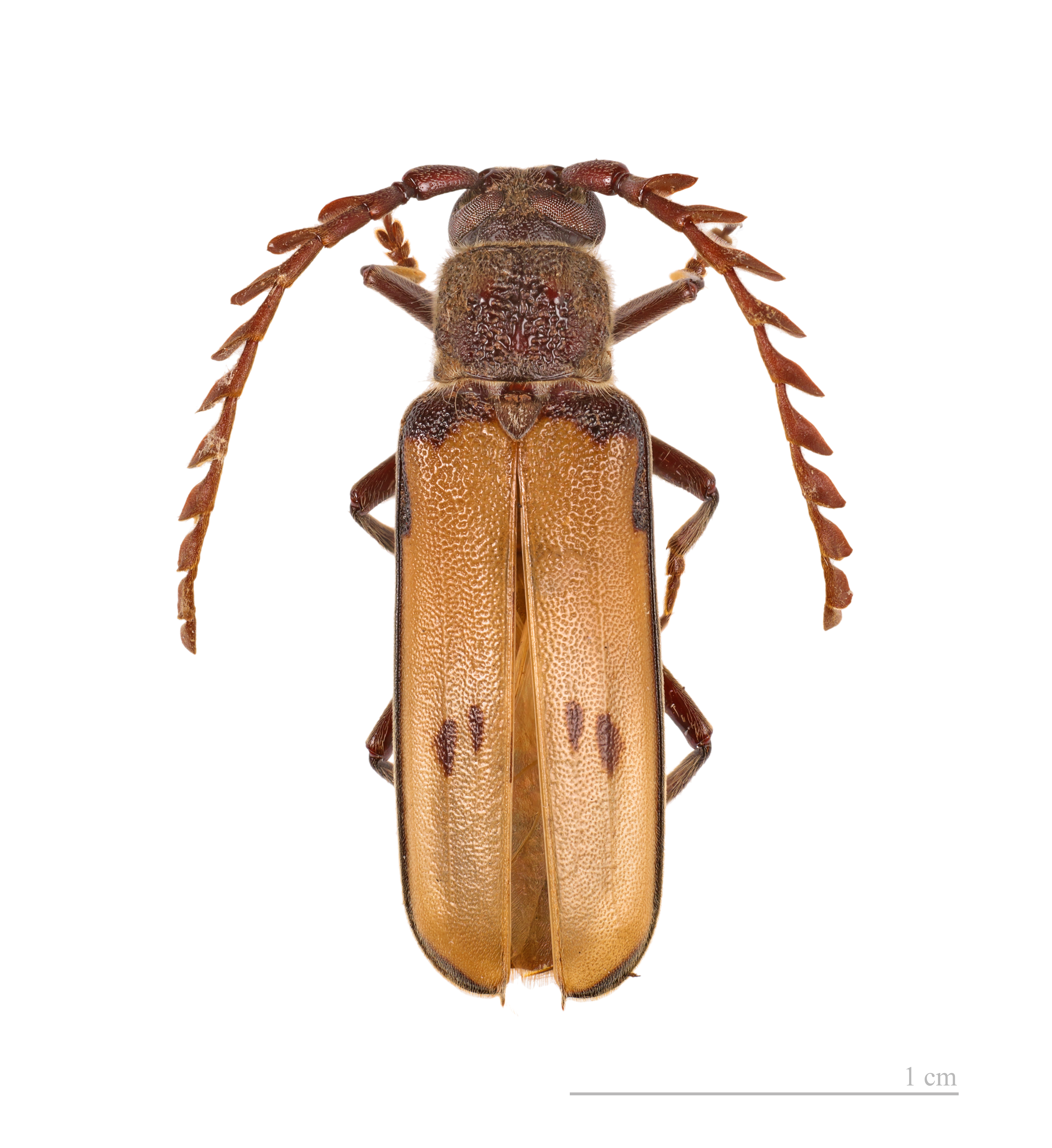 ♂ - Dorsal side Locality : Cayenne sentier du Rovota, French Guiana